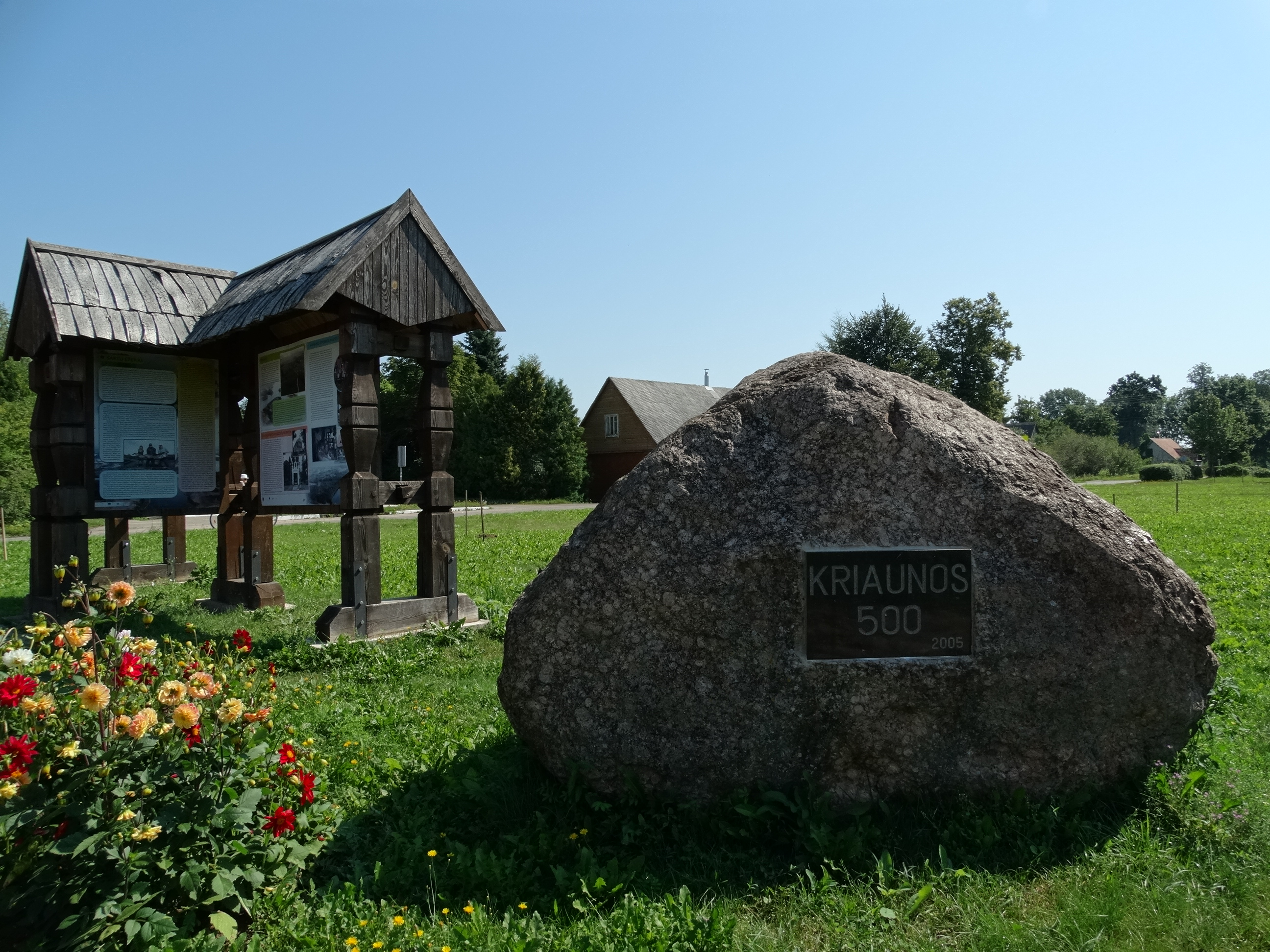 Stone, Kriaunos, Rokiškis District, Lithuania